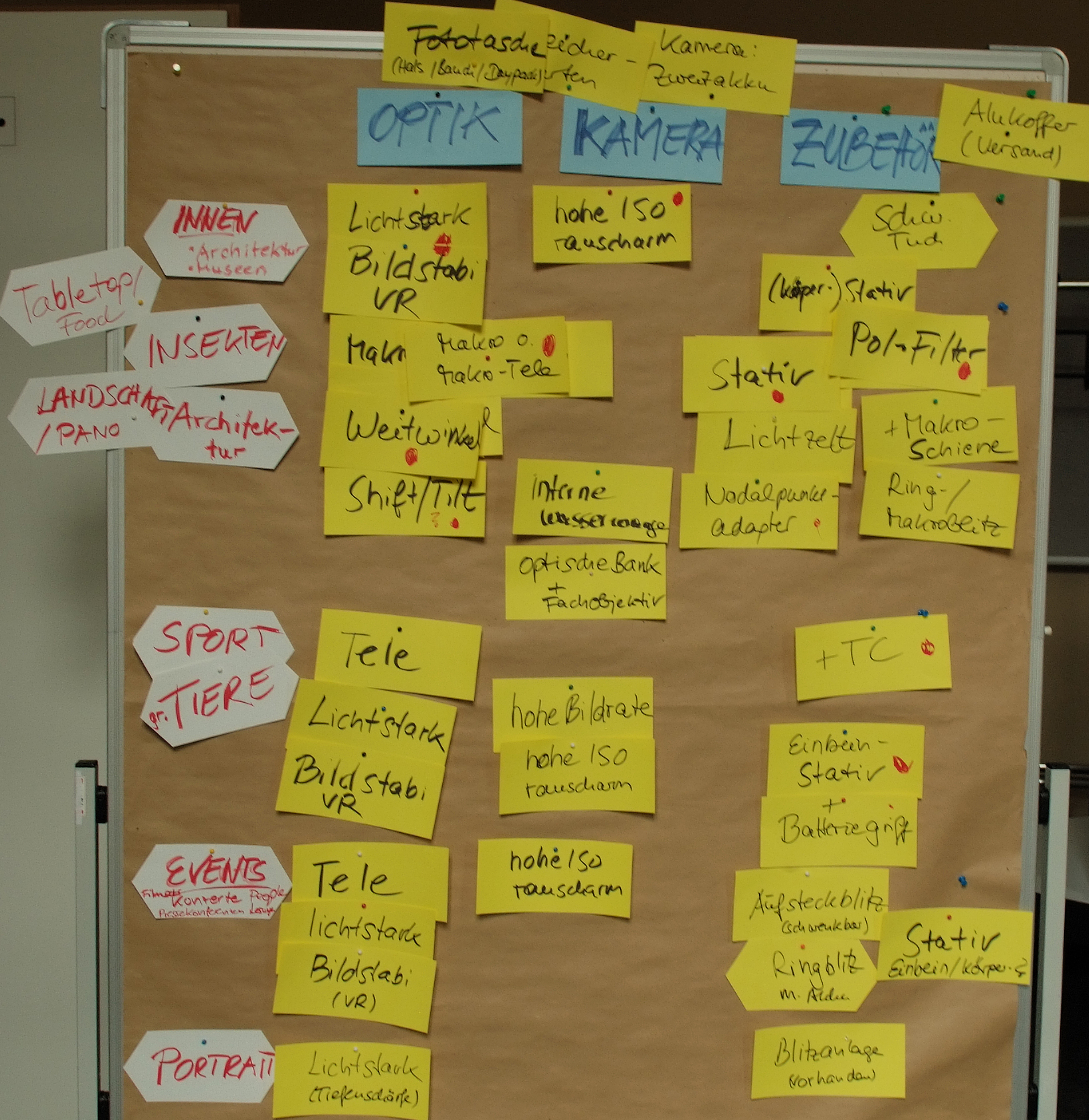 de-Wikipedia 8. Foto-Workshop in Nürnberg Metaplan-Wand